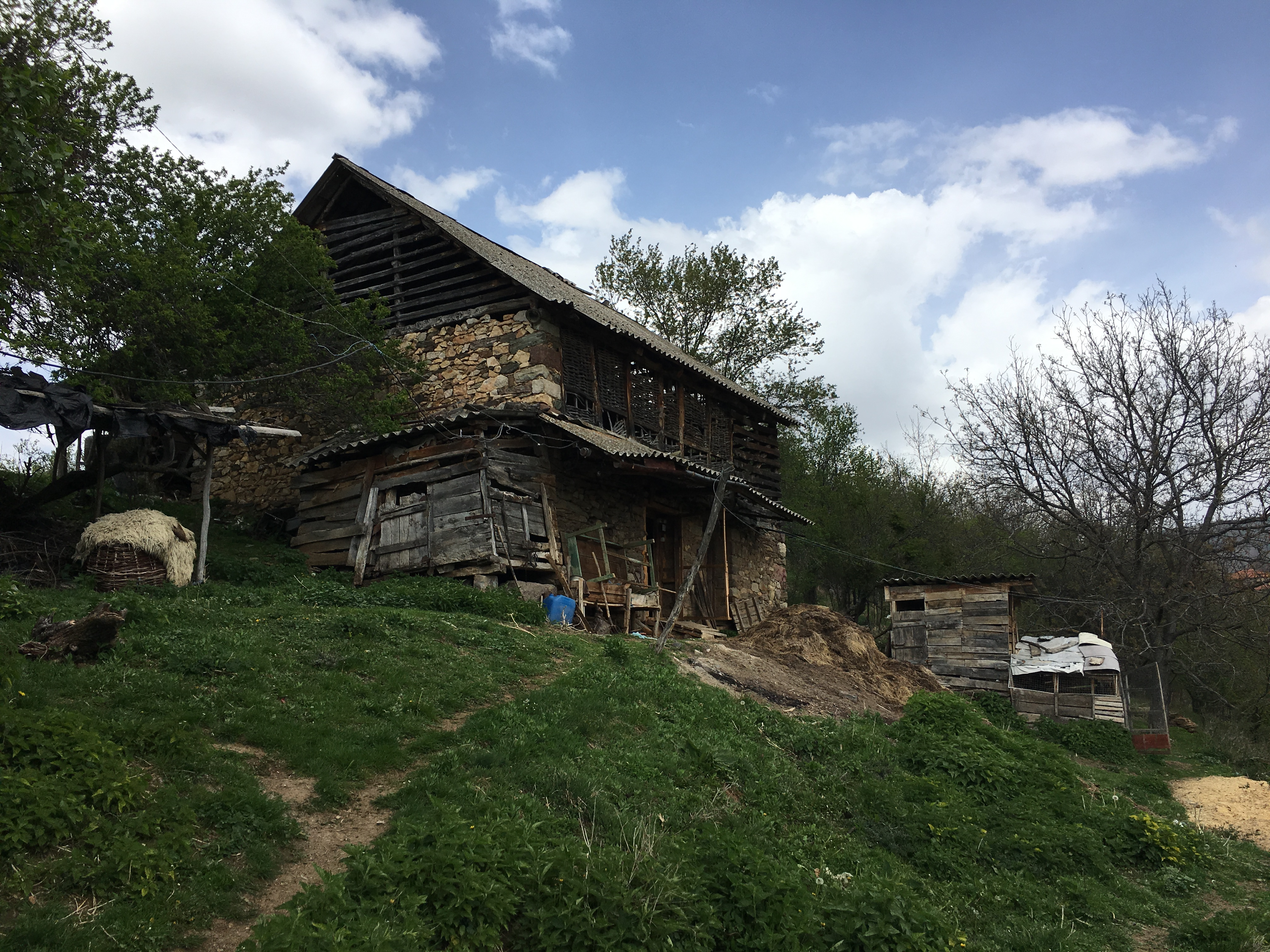 A house in the village of Mala Crcorija